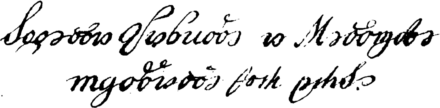 This is from a Google scan of Ivan Berčić's 1860 Bukvar. It has been modified for use on Wikisource using GIMP.